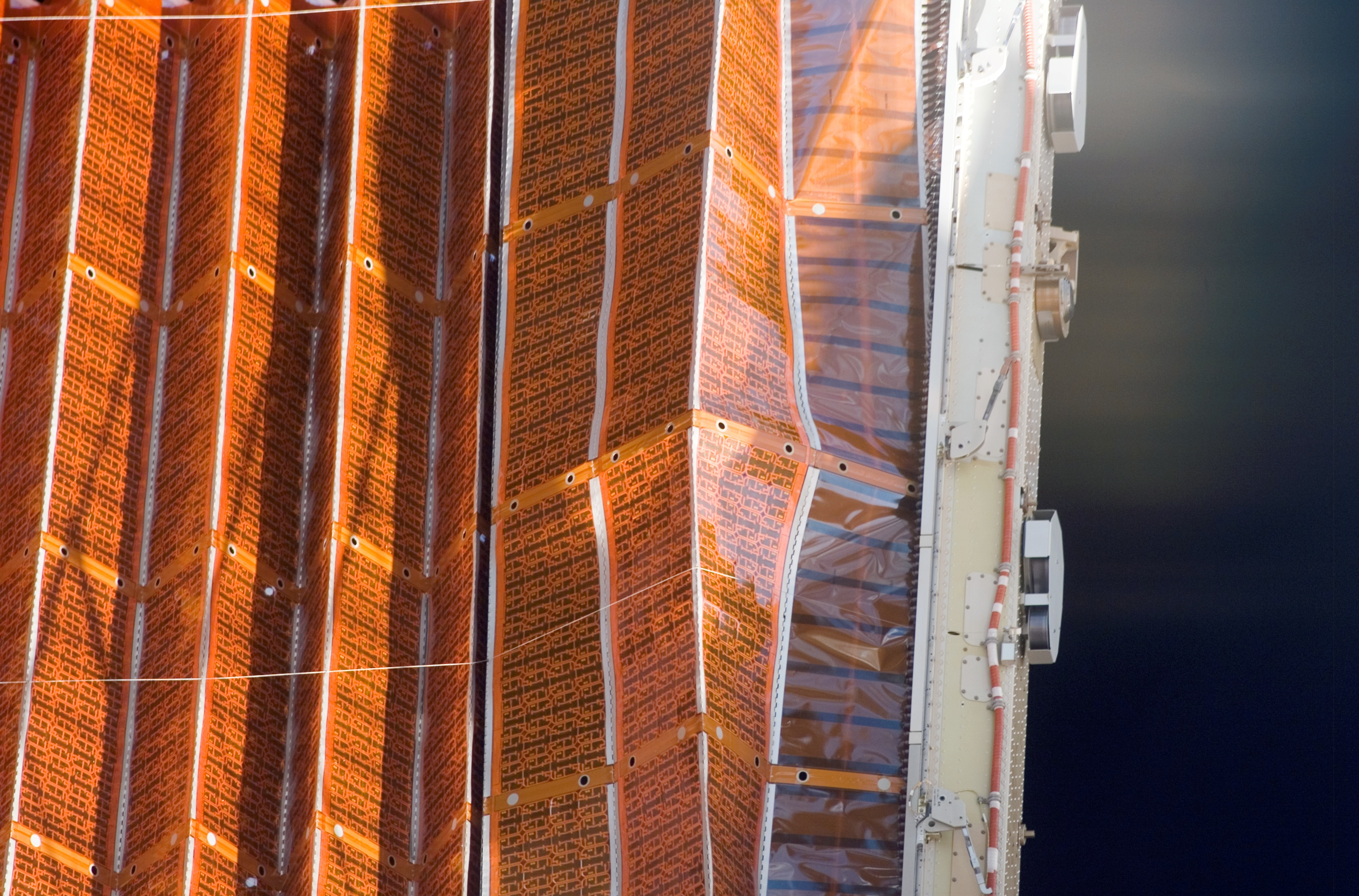 STS-116 Shuttle Mission Imagery This digital still image was taken by a crew member aboard the Space Shuttle Discovery of a kink that occurred in the port-side P6 solar array of the International Space Station during the first attempt to retract that array on Dec. 13. The crew later extended the array and cleared this kink. The slow retraction of the array was then begun again with similar retraction and extension cycles repeated as the day progressed.